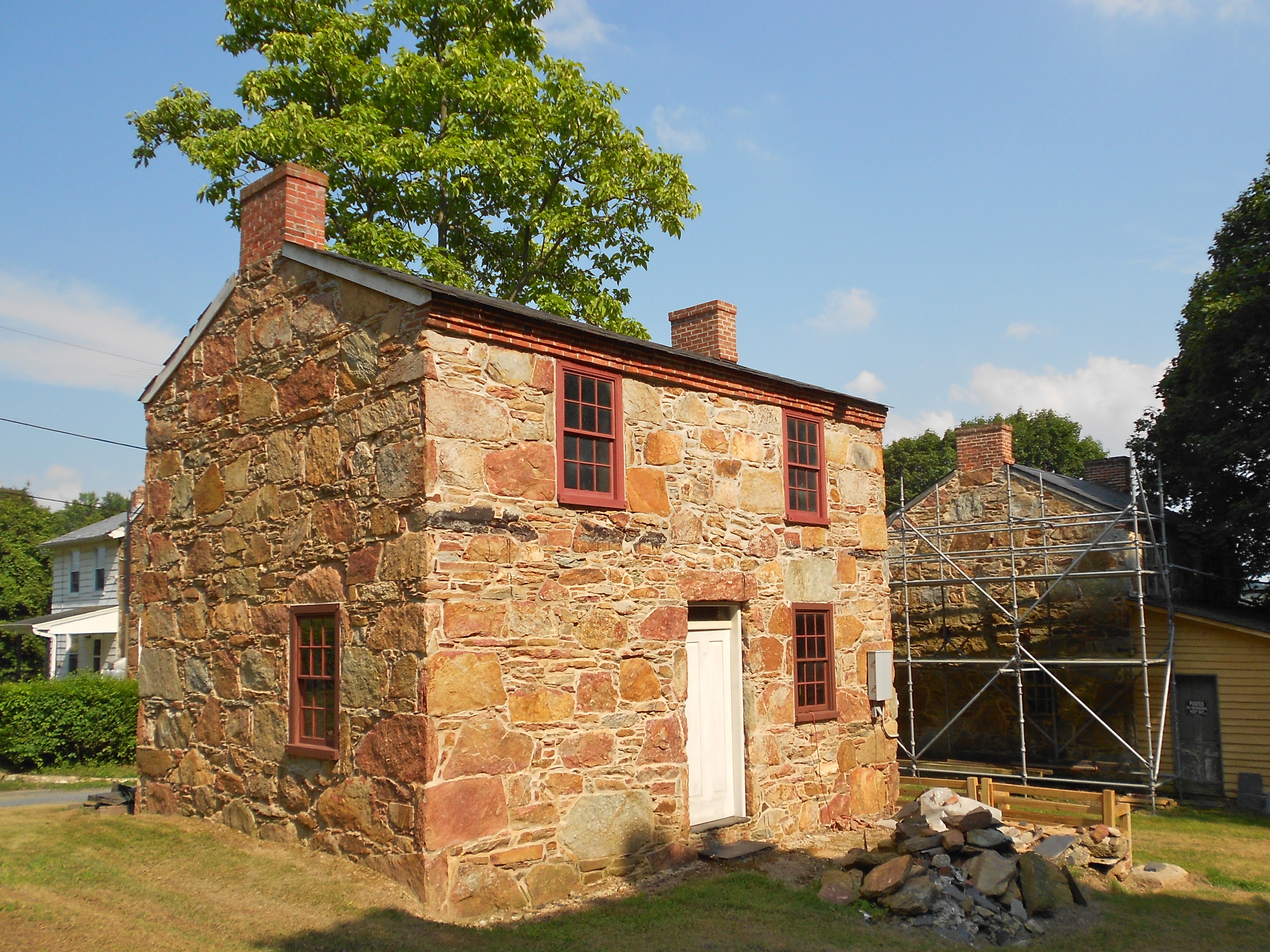 Coulsontown Cottages Historic District, listed on the NRHP on January 31, 1985 . Located on Ridge Road and Main, east of Delta, in Peach Bottom Township. To find it you'll likely have to go to Delta and follow the signs: north on Main, then east, then turn south at the church, its off to the left sorta hidden. Built by Welsh slatesplitters about 1850.